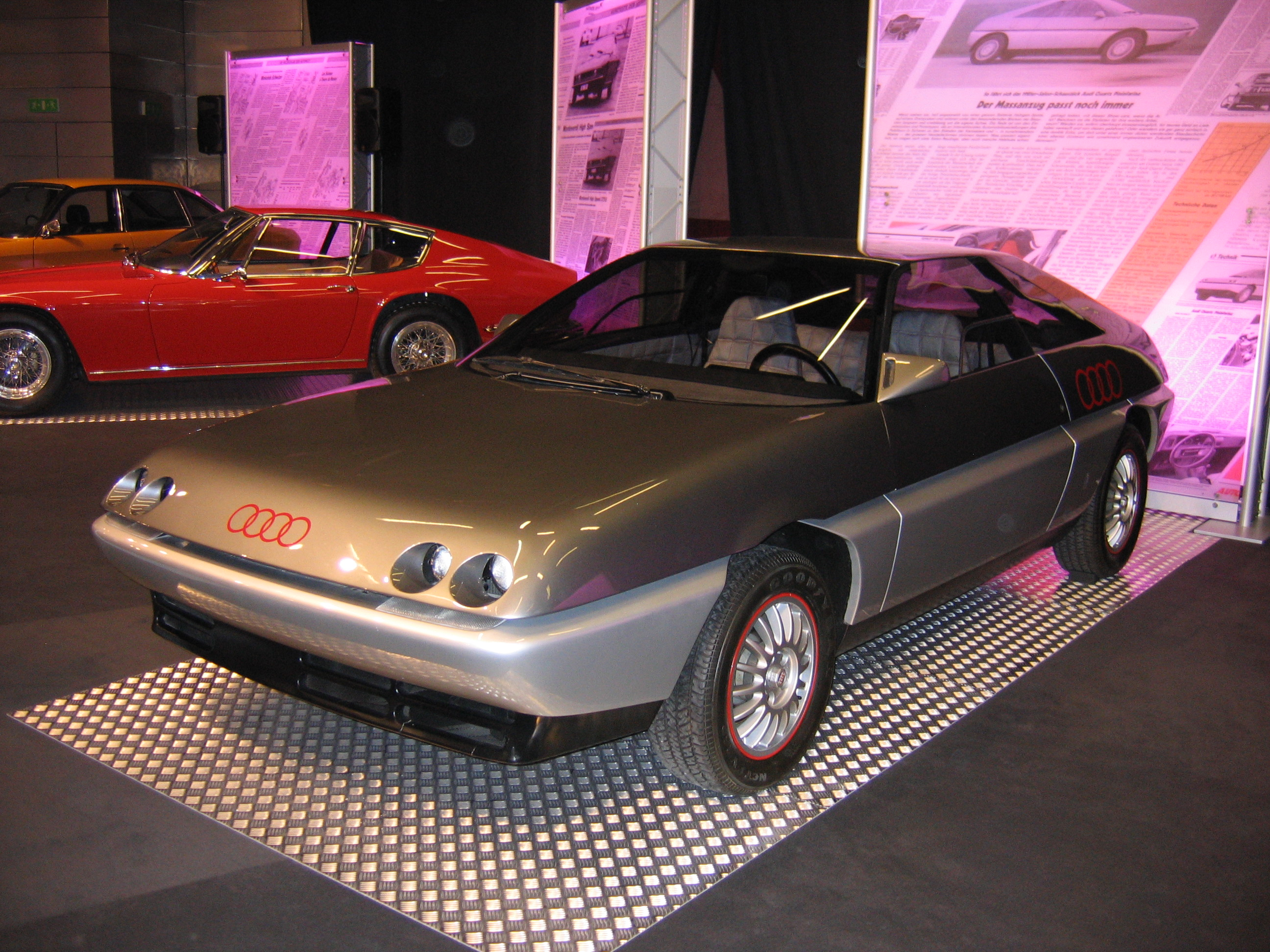 Geneva Motor Show 2006